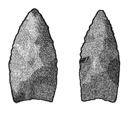 Graphic showing the Plainview points based roughly on image seen at